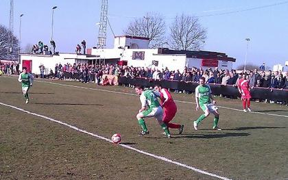 Walsall Wood F.C. playing Guernsey F.C. today (2 March 2013). I took the picture myself